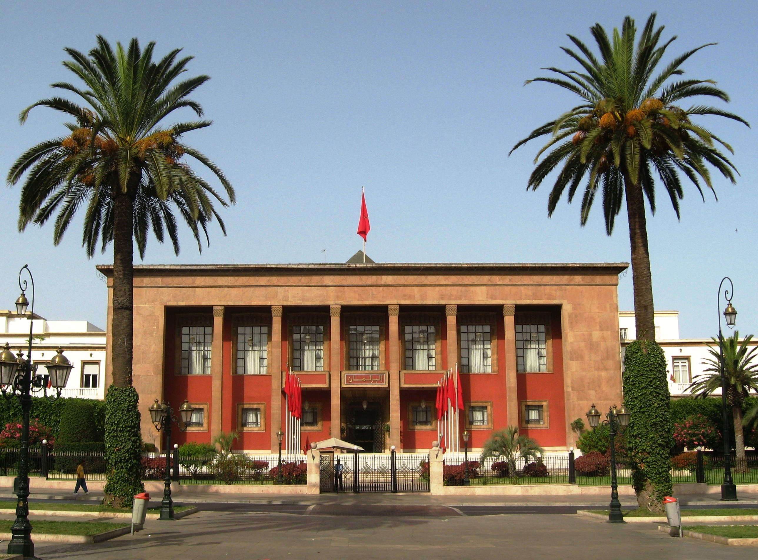 Rabat - building of parlament